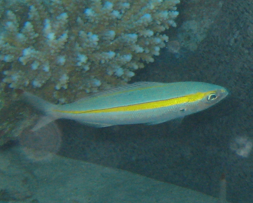 Pterocaesio chrysozona - Sharm el-Sheikh